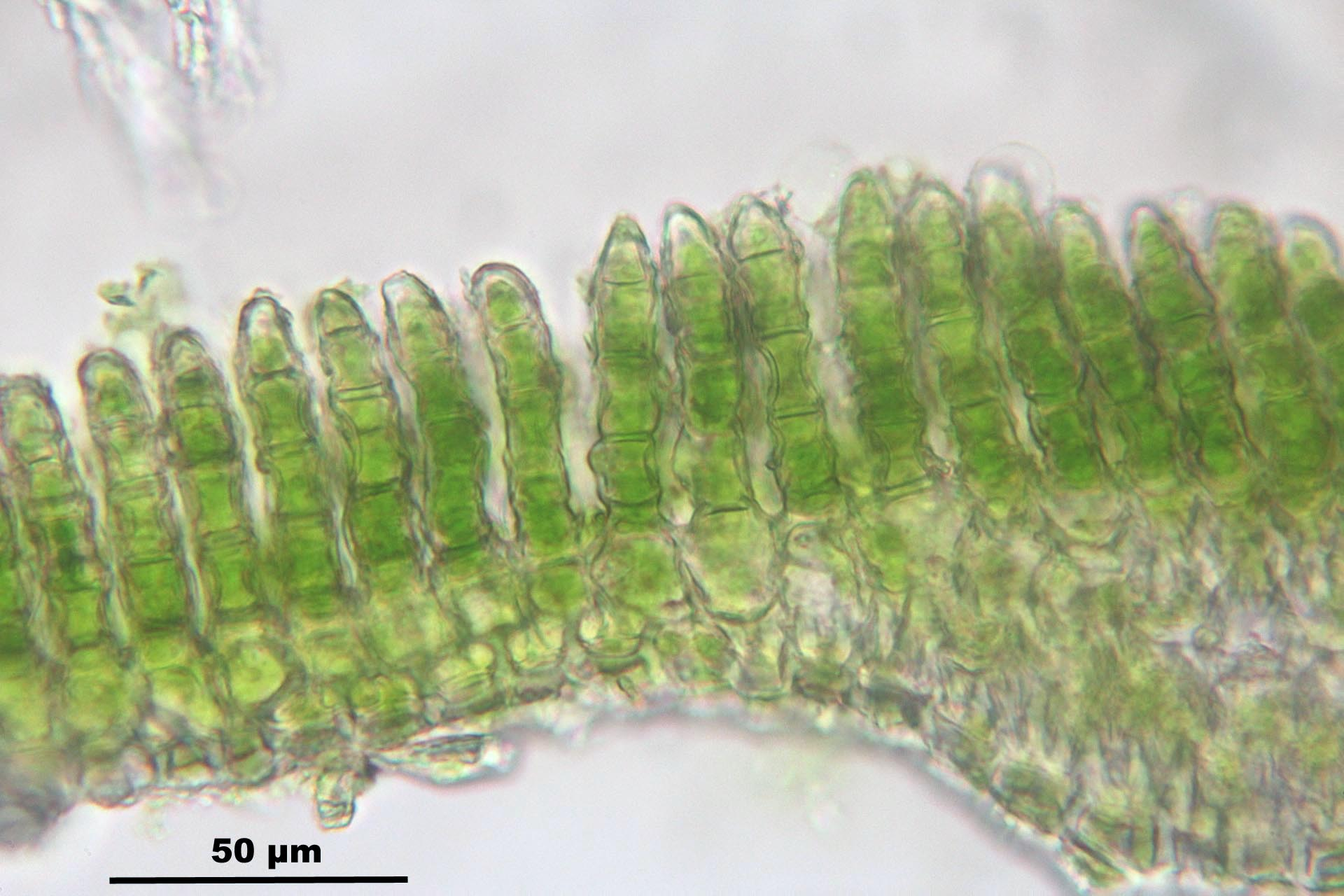 Polytrichum formosum